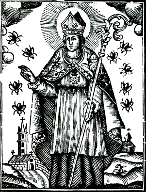 Saint Narcissus of Girona, from a "goig" (gaudia) printing of 18th cent.